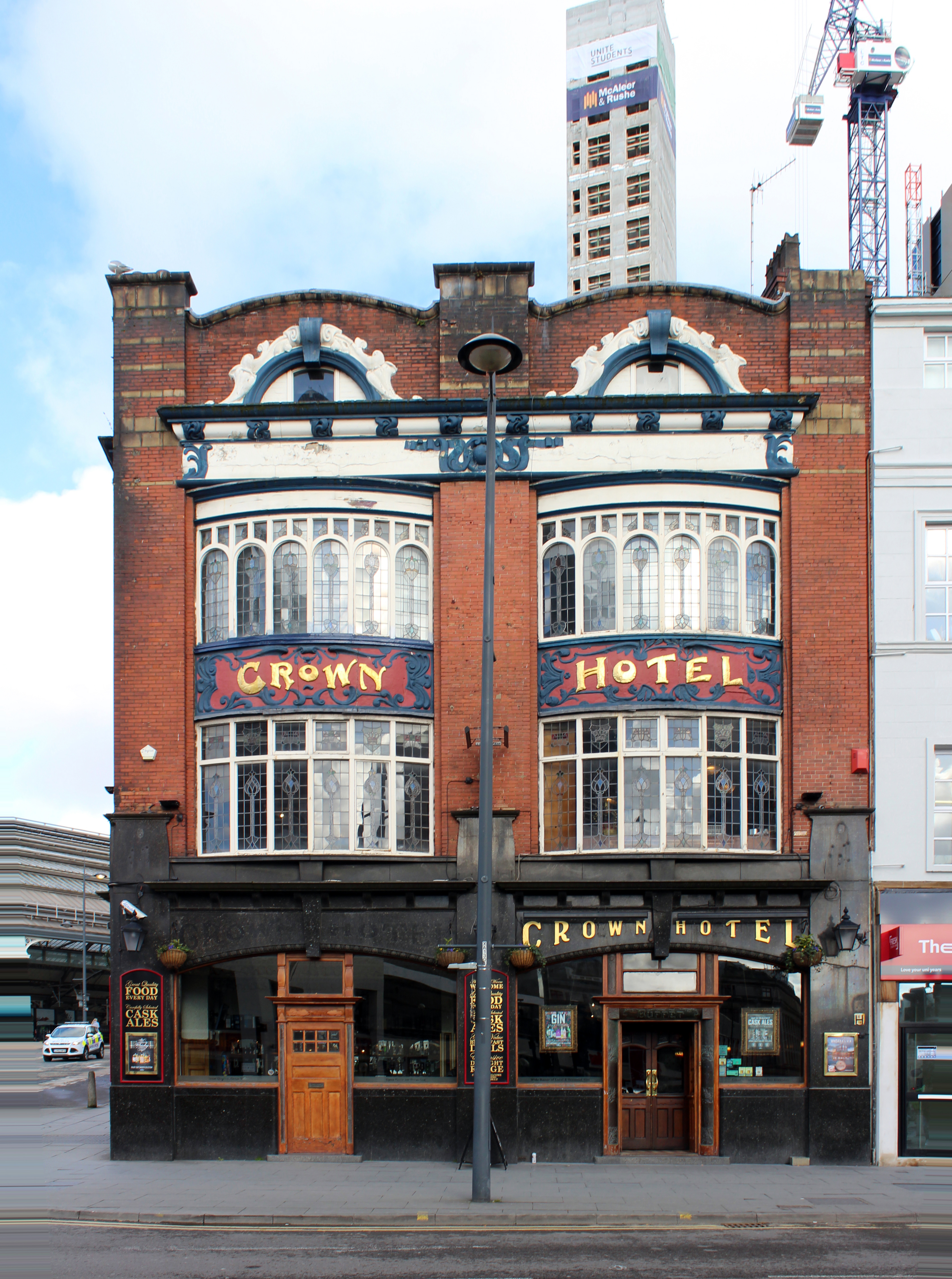 Front elevation of the Grade II listed Crown Hotel, built 1905 in art nouveau style, on Lime Street, Liverpool.